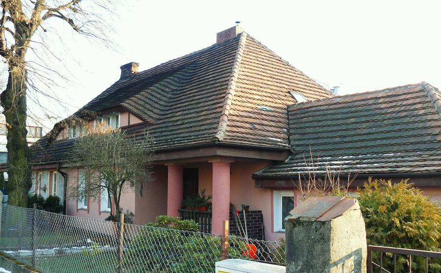 Poznan, Palacza Street, Strzecha District.